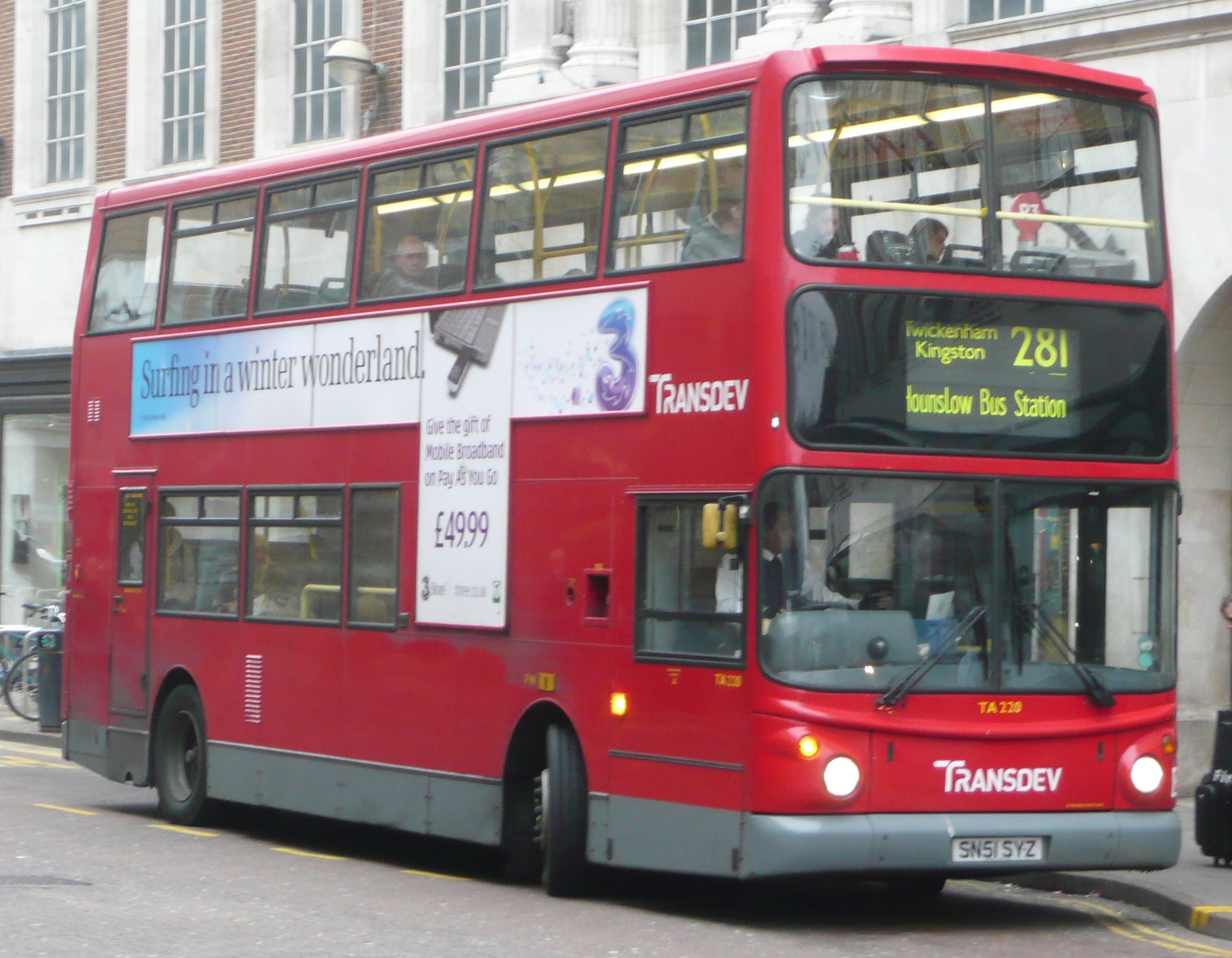 Transdev London's TA220 (SN51 SYZ), a Dennis Trident/Alexander ALX400 in Kingston on route 281.